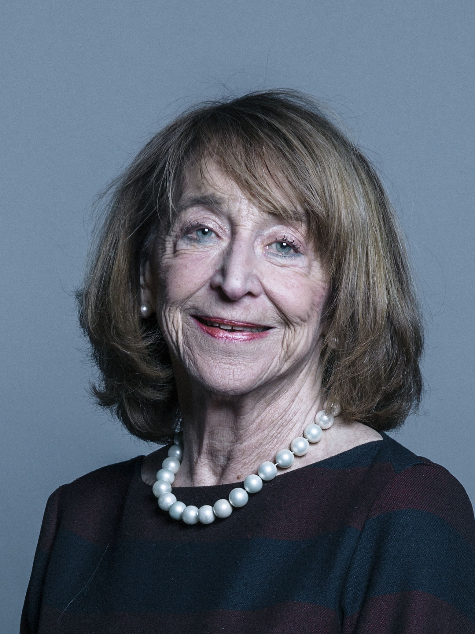 Official portrait of Baroness Pitkeathley